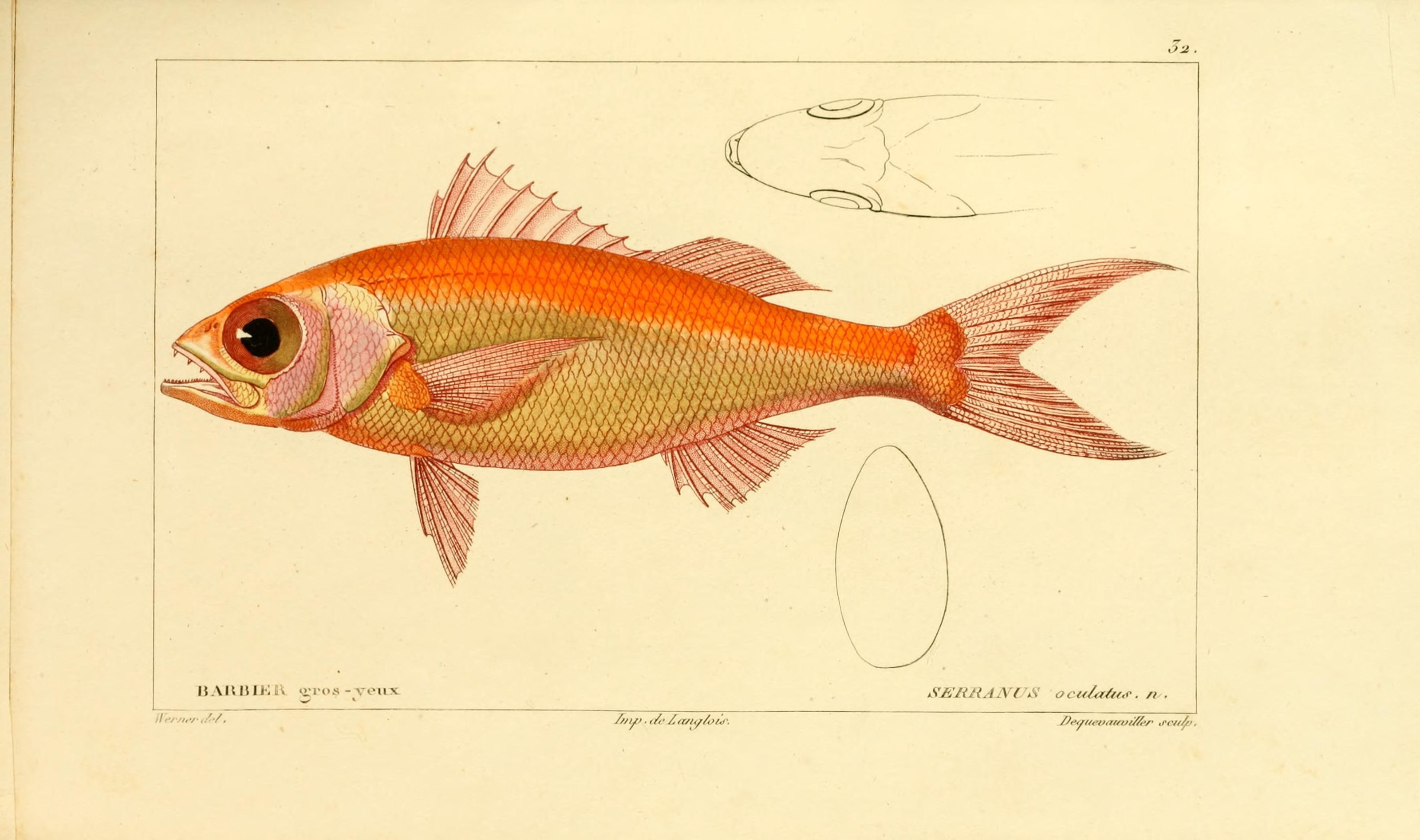 Etelis oculatus syn Serranus oculatus from Chez F. G. Levrault,1828-1849..Histoire naturelle des poissons, Paris., Harvard University, MCZ, Ernst Mayr Library.